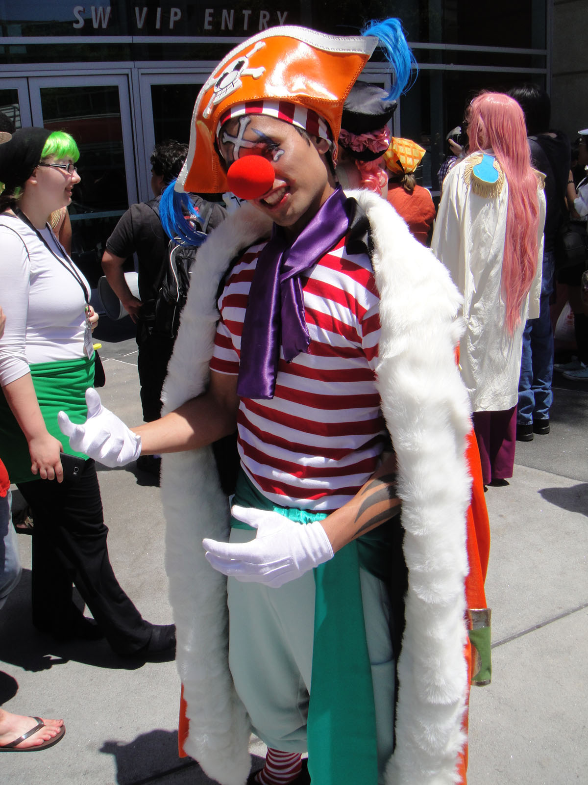 photo 2011 taken by Doug Kline If you're interested in higher resolution versions of my images, contact me via my profile page.